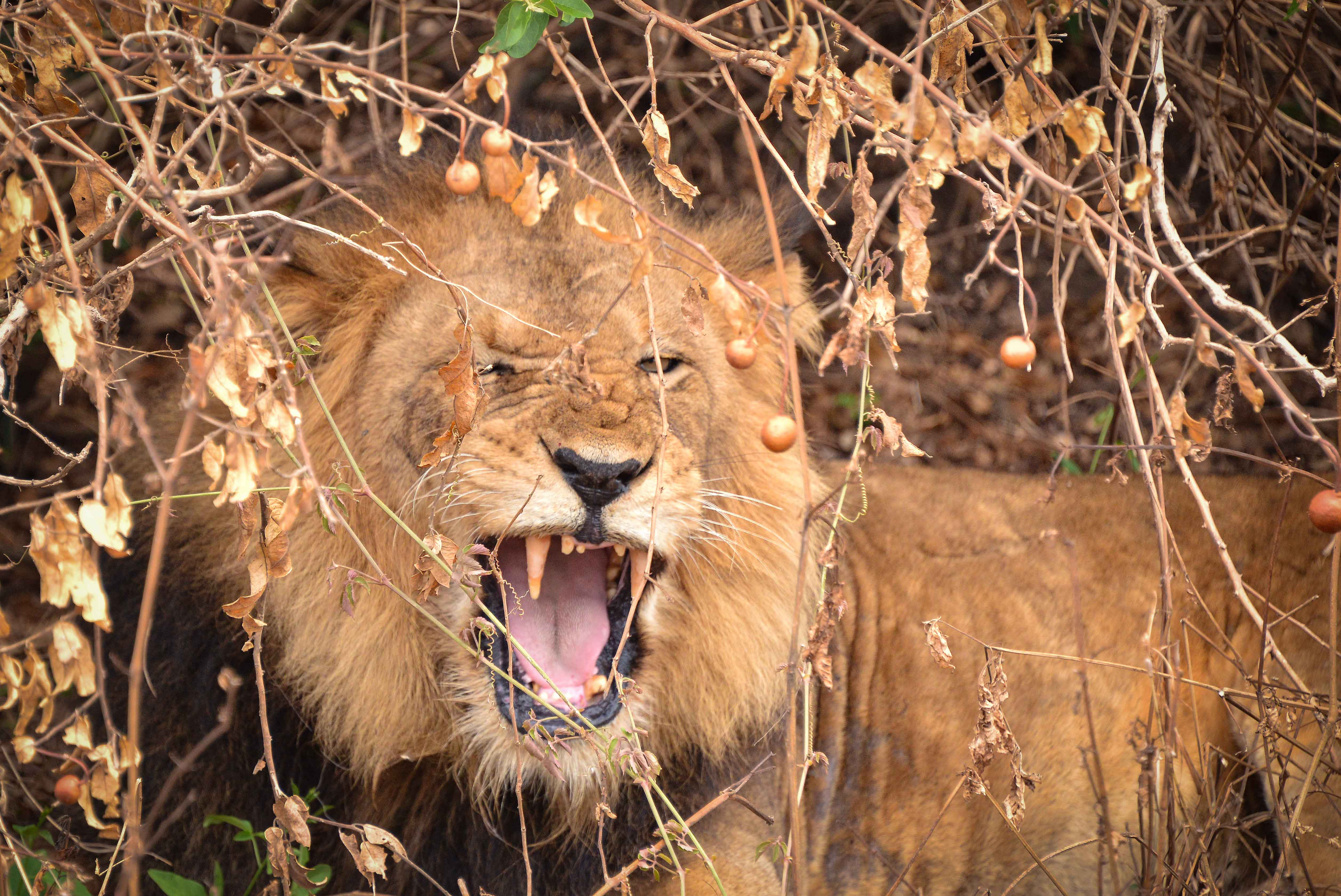 Uganda Natural World